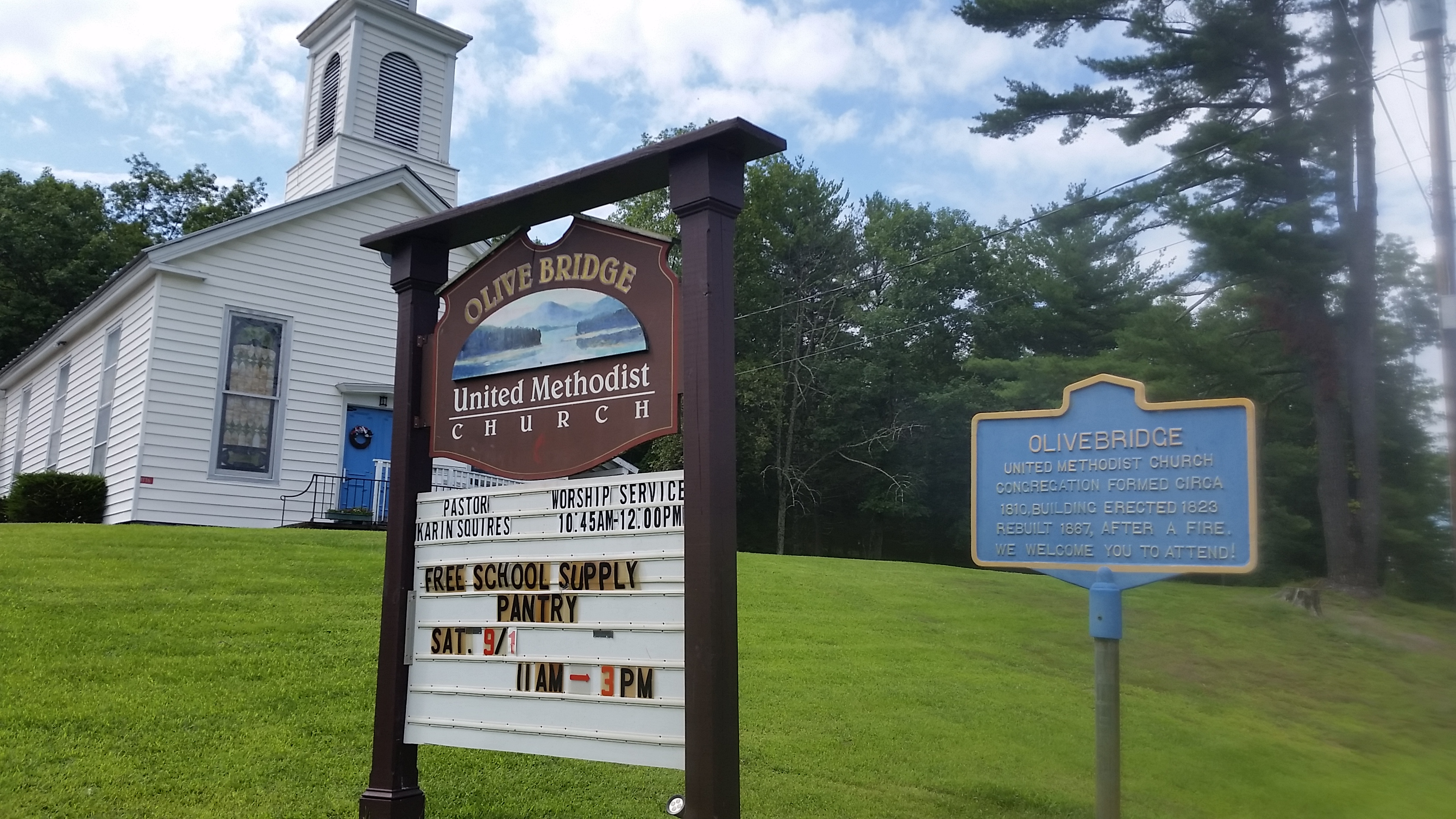 New York State historical marker for the Methodist Church in Olivebridge, NY